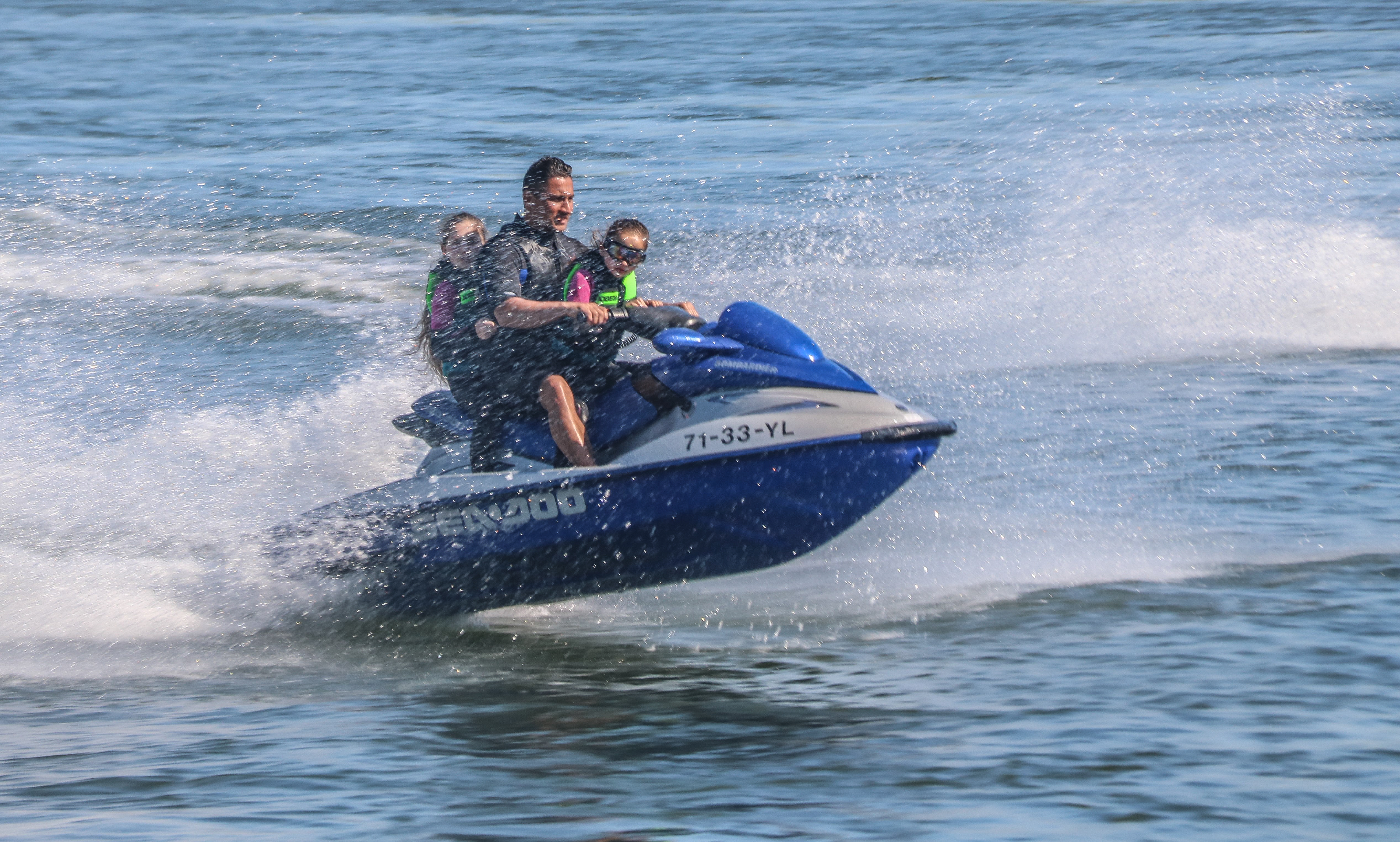 Family on a jets ski Holland